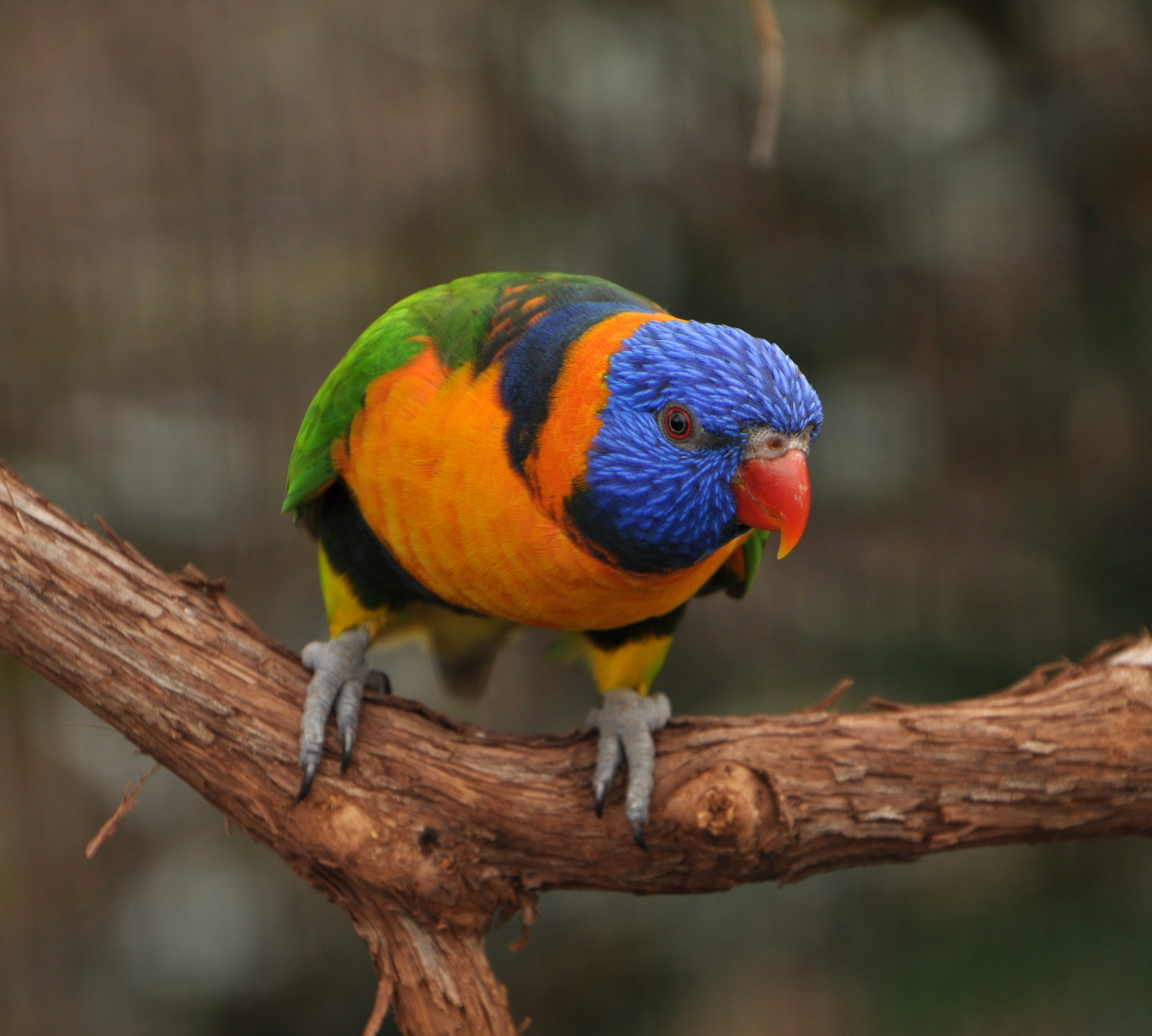 A Red-collared Lorikeet at Cincinnati Zoo, Ohio, USA.